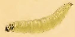 Stainton’s Natural History of the Tineina (1855–1873): Glyphipterix equitella larva